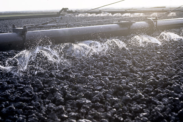 Close-up of Trickle-bed Filter tank. Close up of 1450096